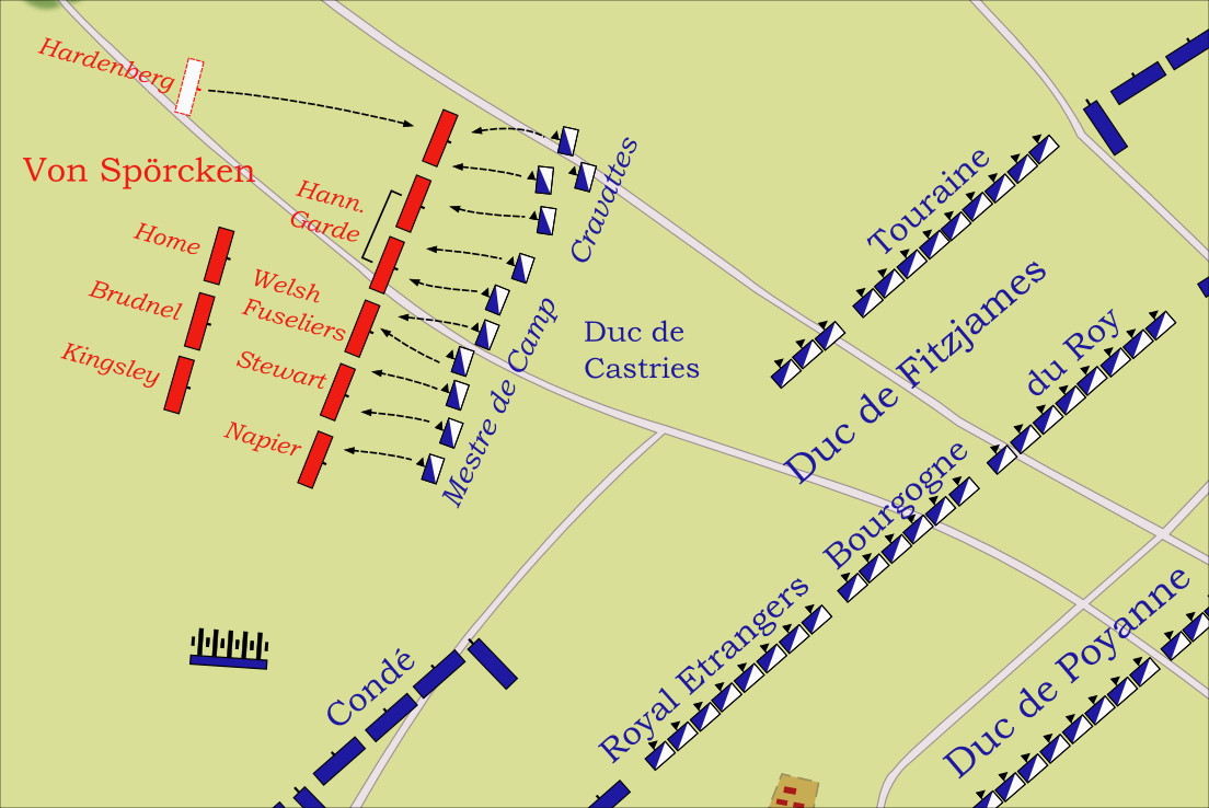 (German) Map showing the first French Cavalry-Attack against the Division vo Spörken during the Battle of Minden 1759.